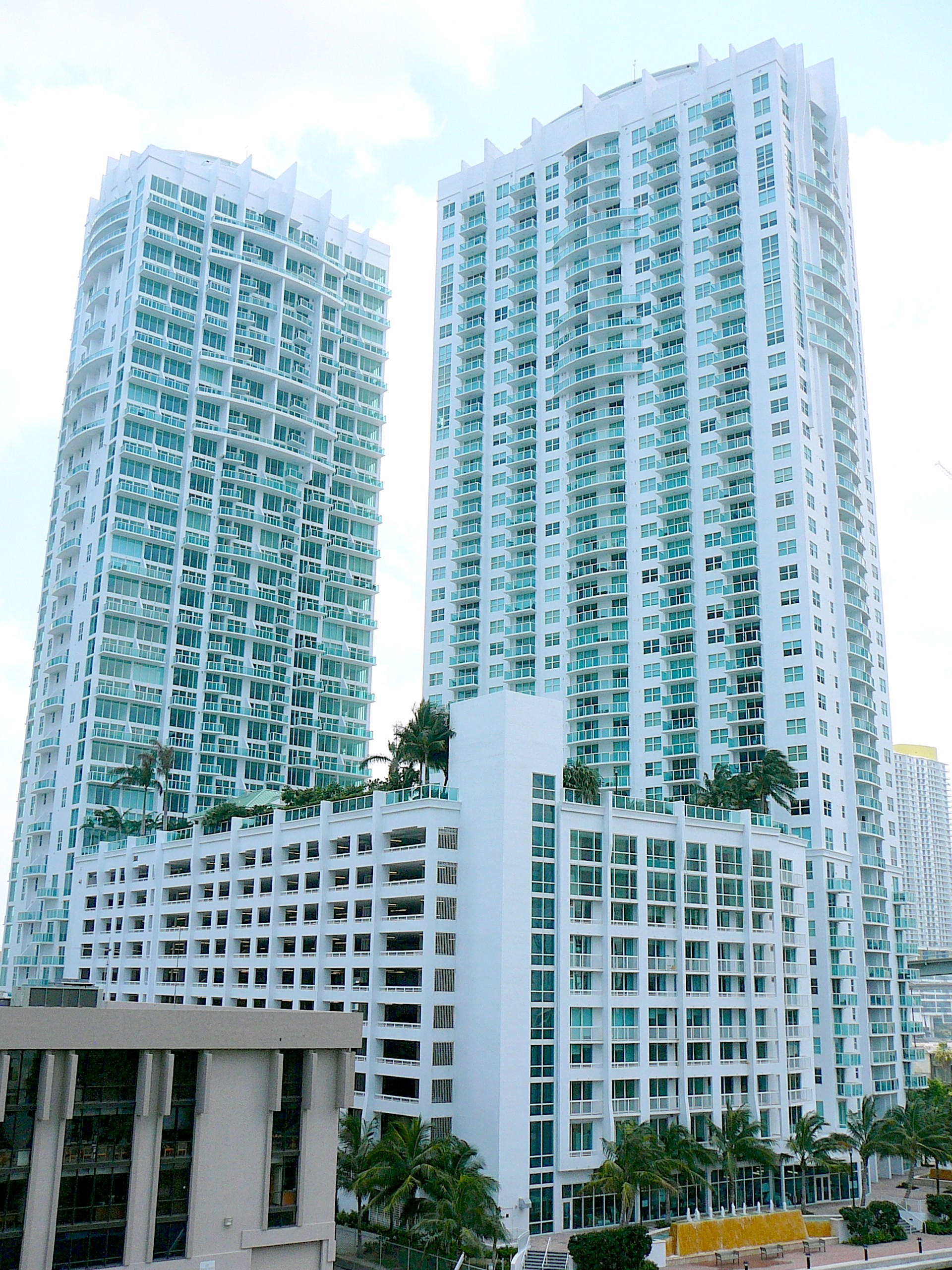 Digital photo taken by Marc Averette. Brickell on the River towers in Downtown Miami from the north side of the river 5/14/2008